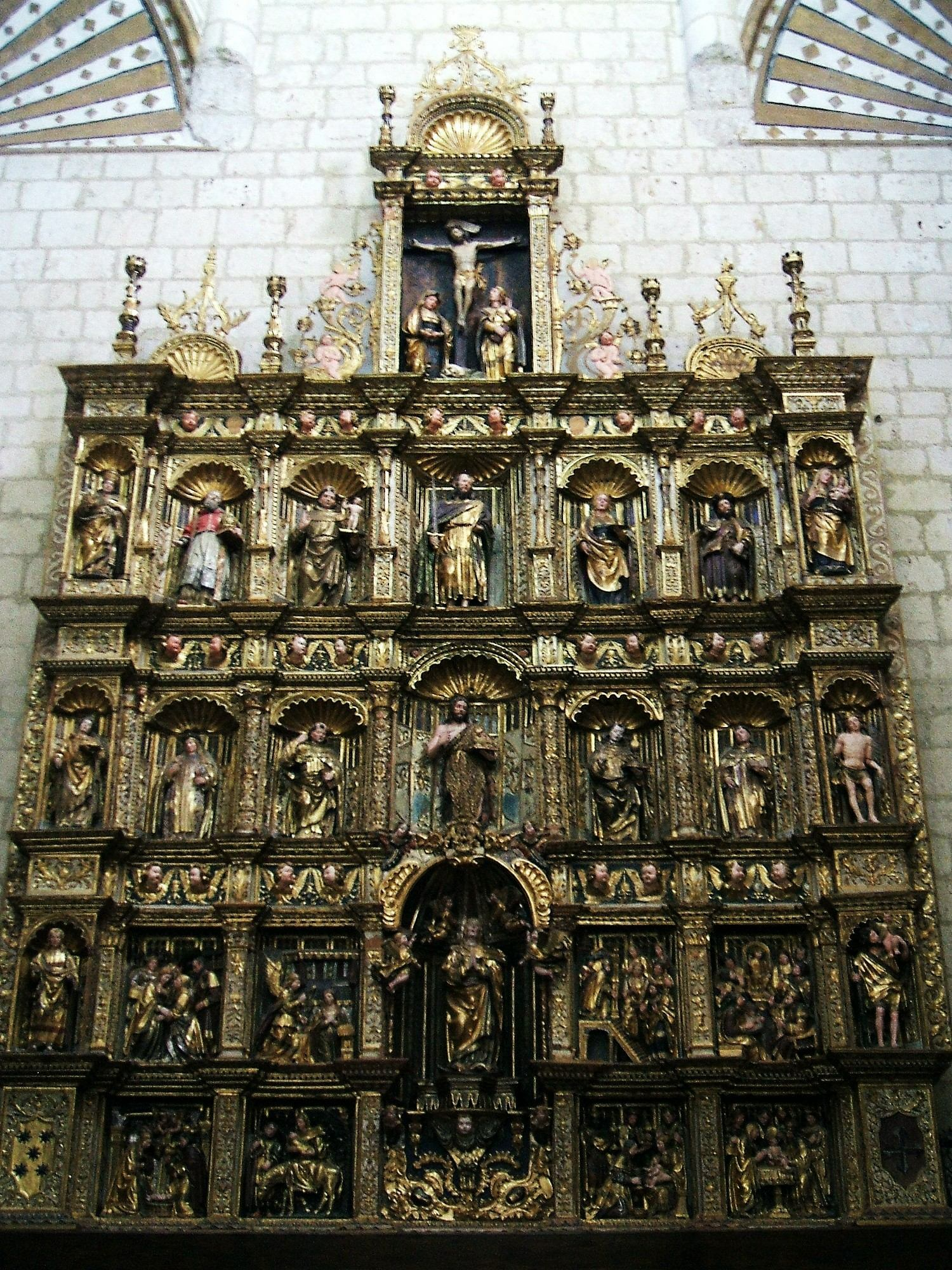 Retablo plateresco de la Capilla Mayor de la iglesia del Colegio de San Pablo, en Palencia (España), atribuido a Felipe Vigarny